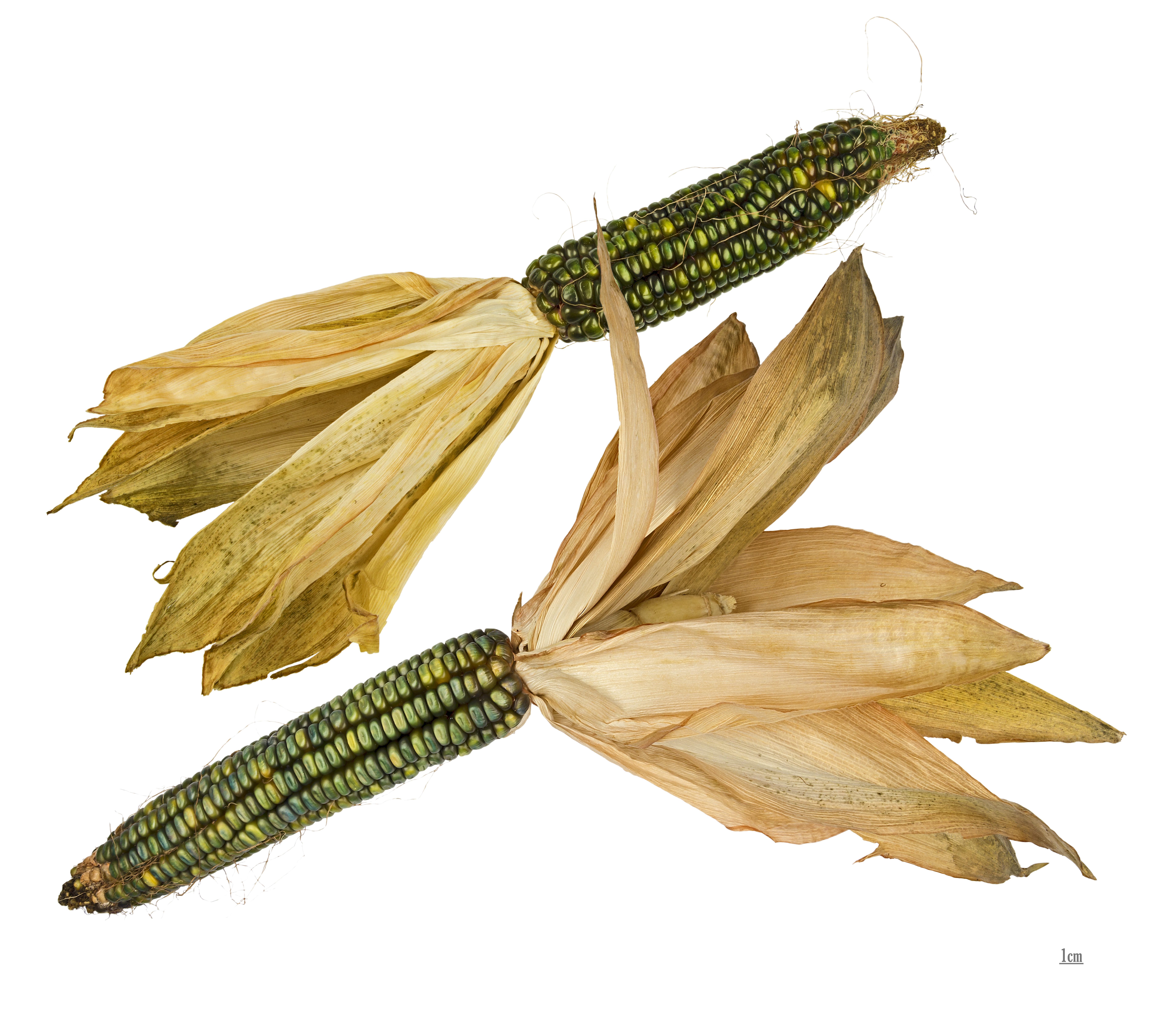 Maize Oaxacan Green, fruits and seeds